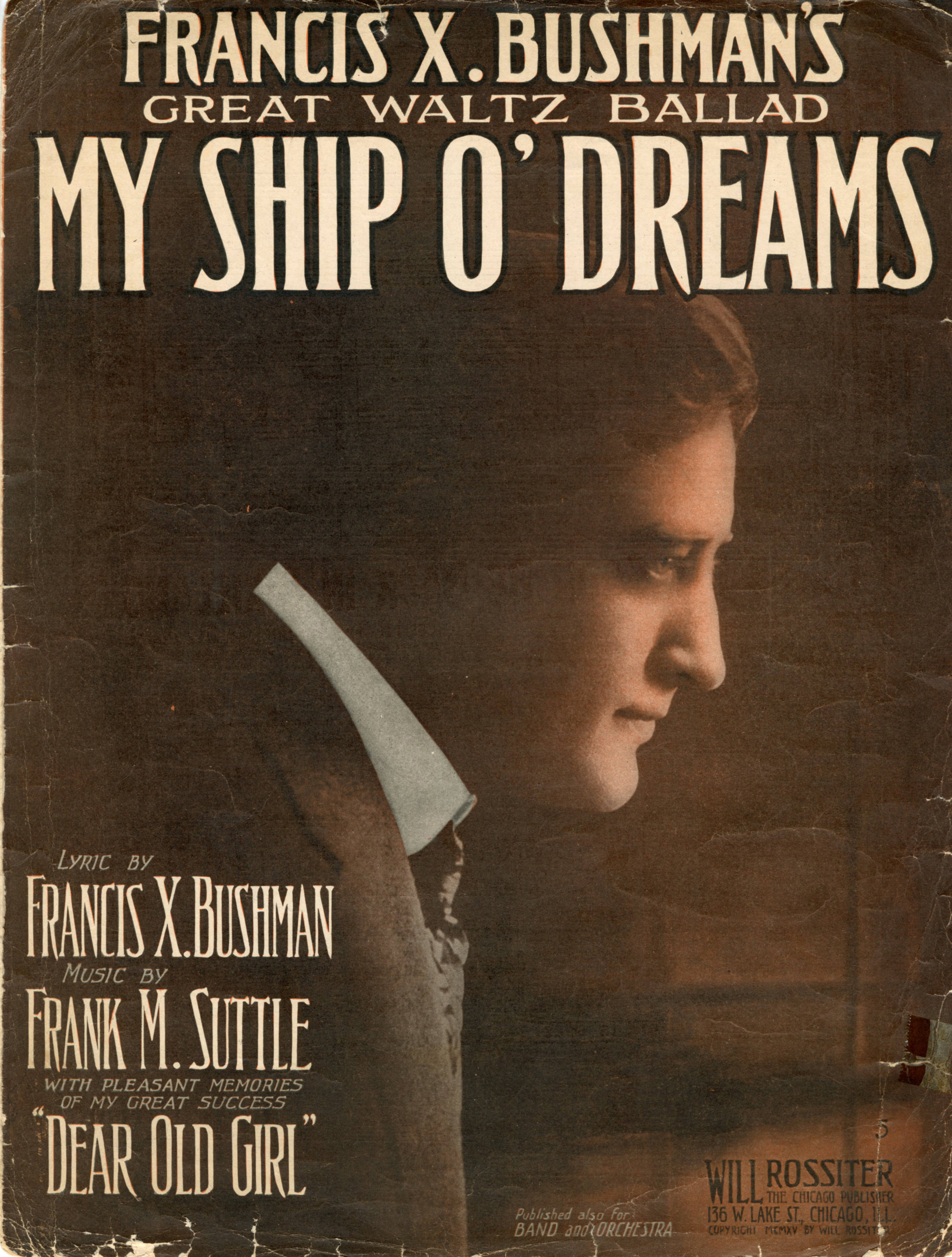 Sheet music cover: "My Ship O' Dreams" 1 vocal score (5 p.) ; 36 cm. Illustrated cover with image of Francis X. Bushman.